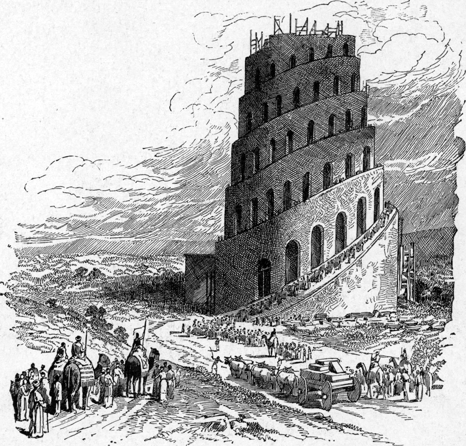 Tower of Babel